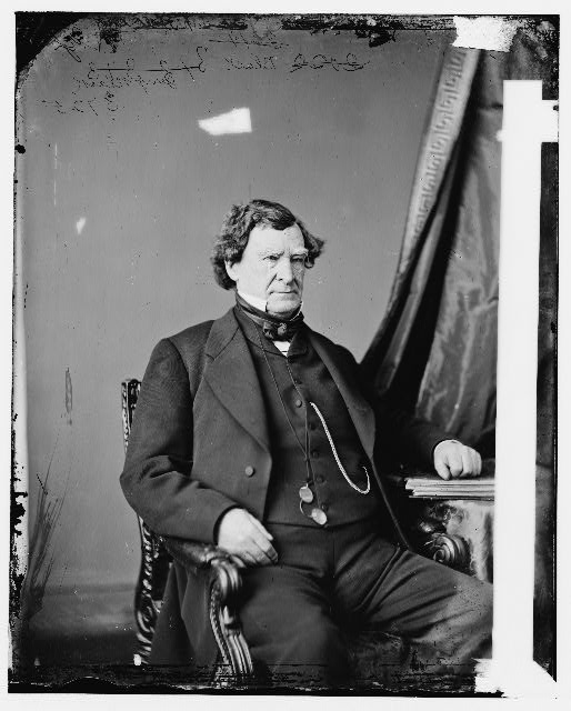 Jeremiah Sullivan Black ( January 10, 1810 – August 19, 1883) was an American statesman and lawyer.